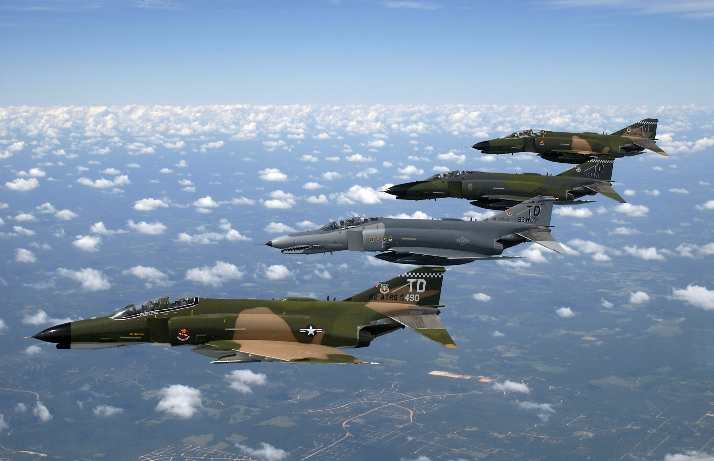 OVER FLORIDA -- A formation of F-4 Phantom II fighter aircraft fly in formation during a heritage flight demonstration here. The heritage flight program was established in 1997 to commemorate the 50th Anniversary of the U.S. Air Force.